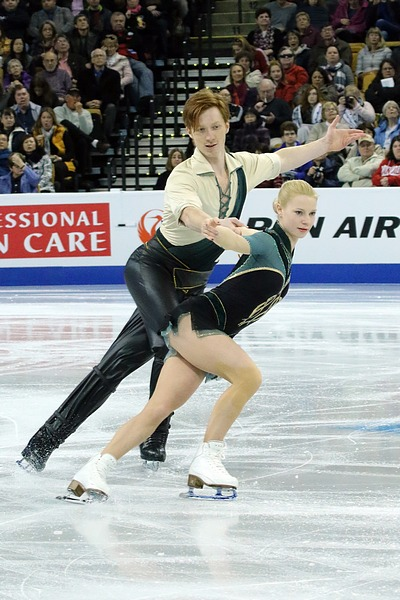 Evgenia Tarasova and Vladimir Morozov at the 2016 World Championships.